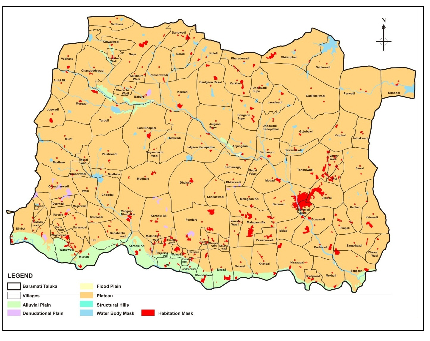 This Map is prepared by KVK Baramati